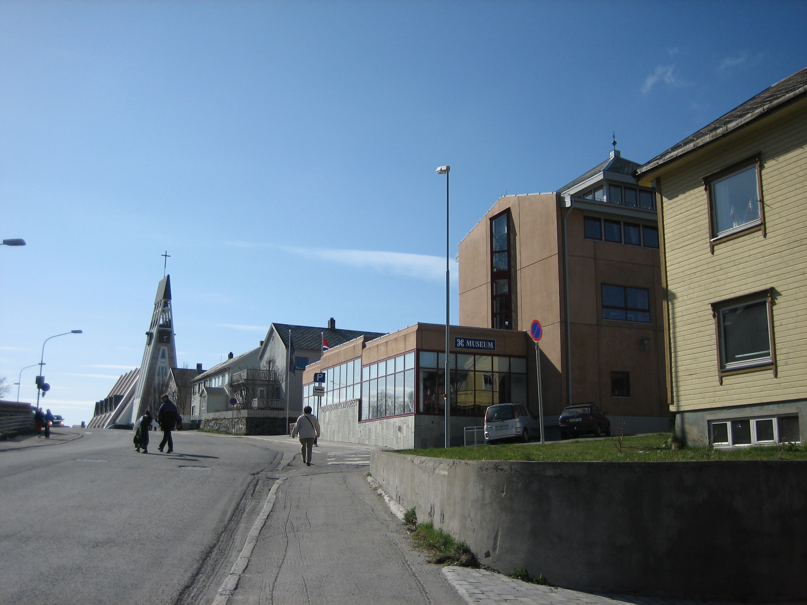 The Museum of Reconstruction and the Lutheran Church in Hammerfest, Norway. Taken on Norwegian Constitution Day.